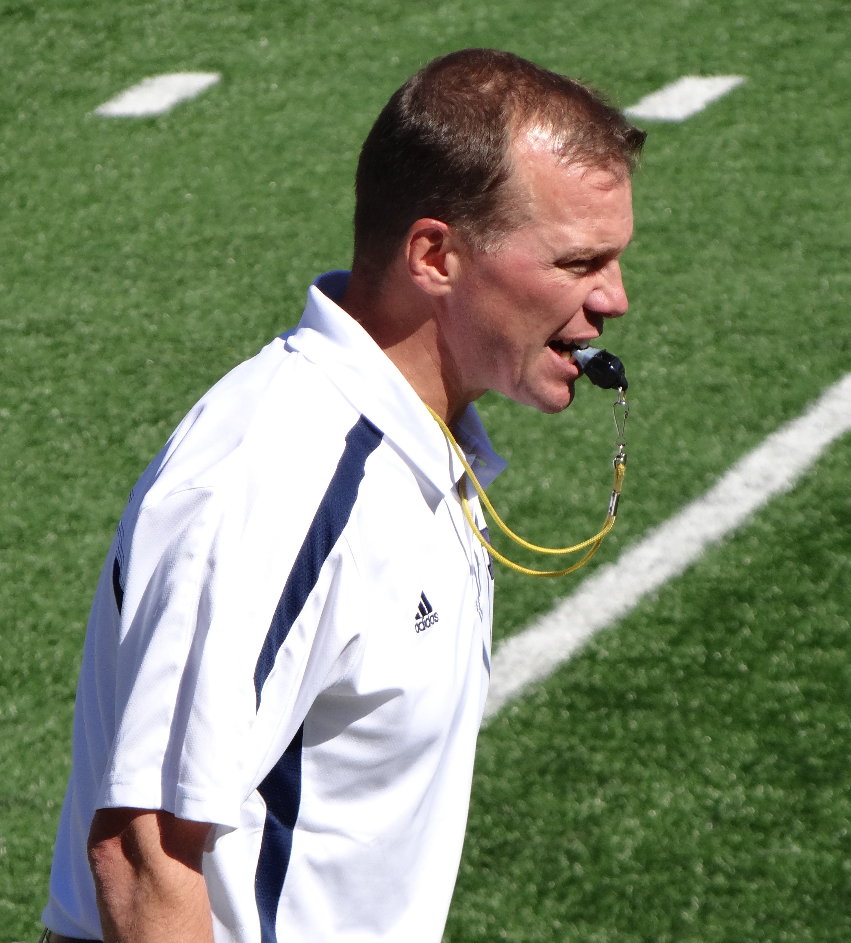 Michigan secondary coach Curt Mallory